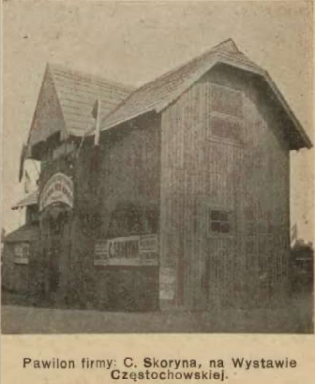 Mill of the company "C. Skoryna i Spółka" during exhibition Wystawa Przemysłu i Rolnictwa w Częstochowie, 1909